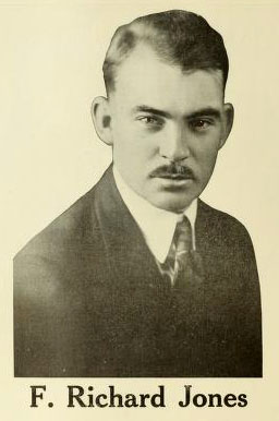 In Moving Picture World, May 1919